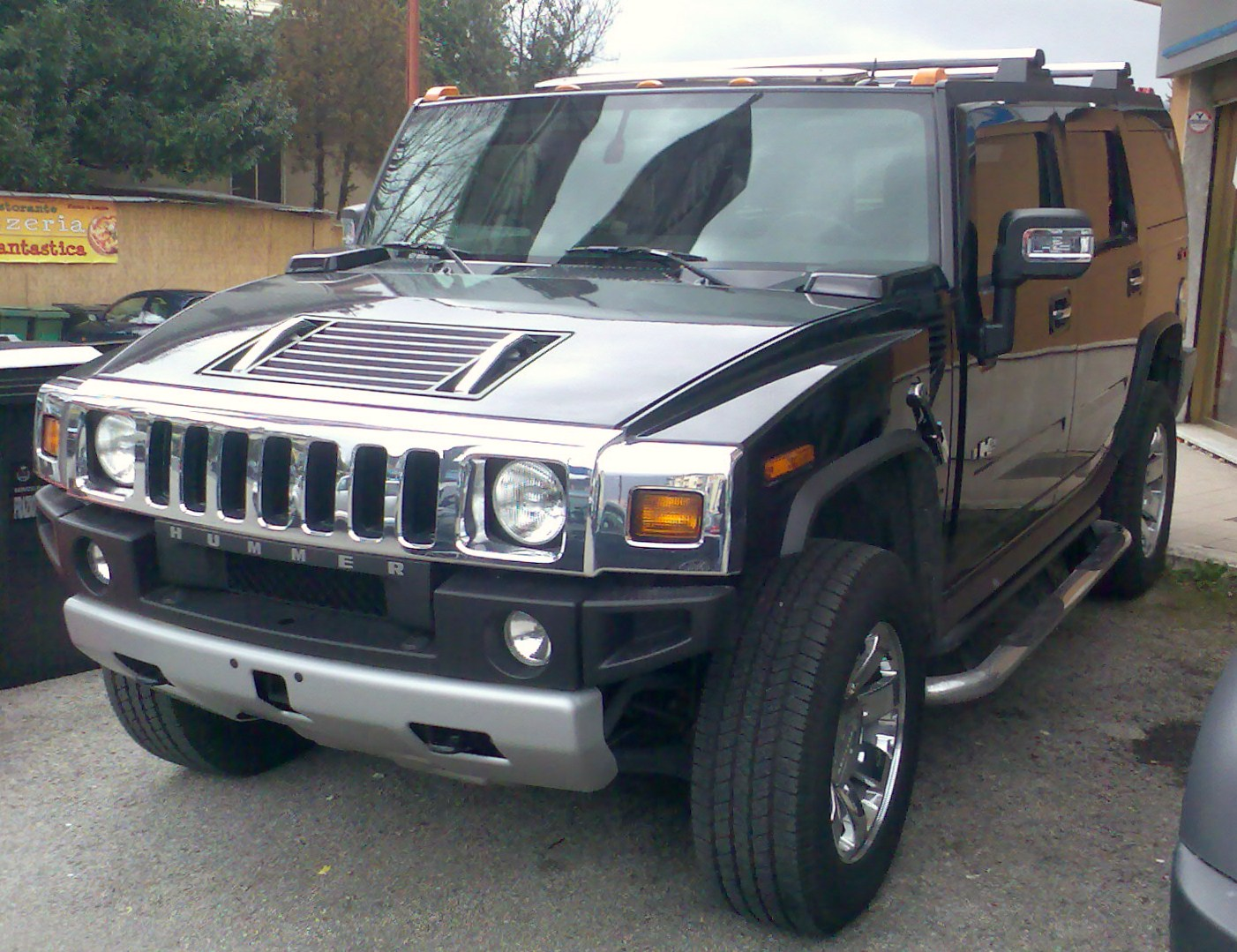 Hummer H2